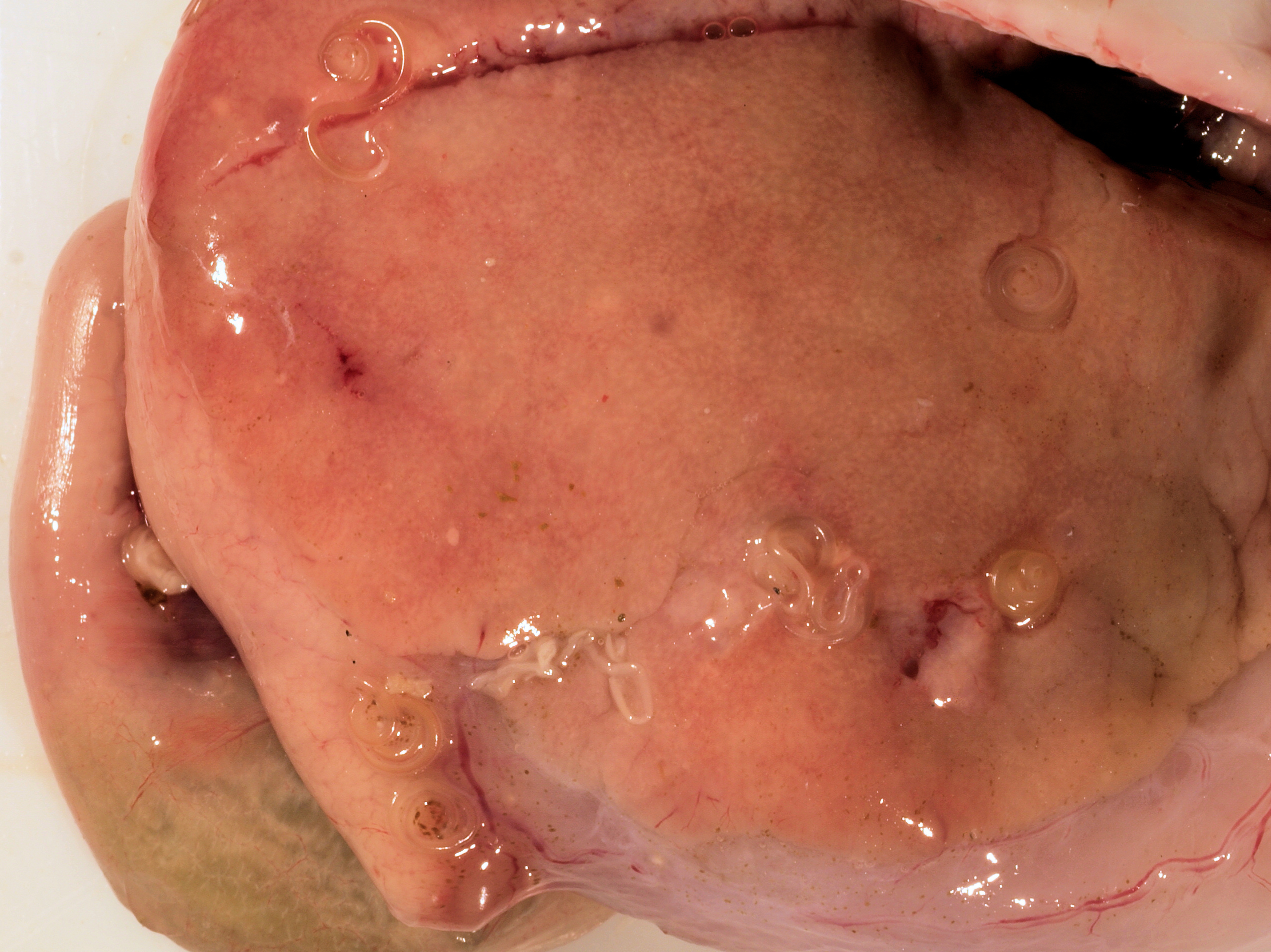 Whaleworm in Cod liver (Gadus morhua), from the north of the Belgian continental shelf.